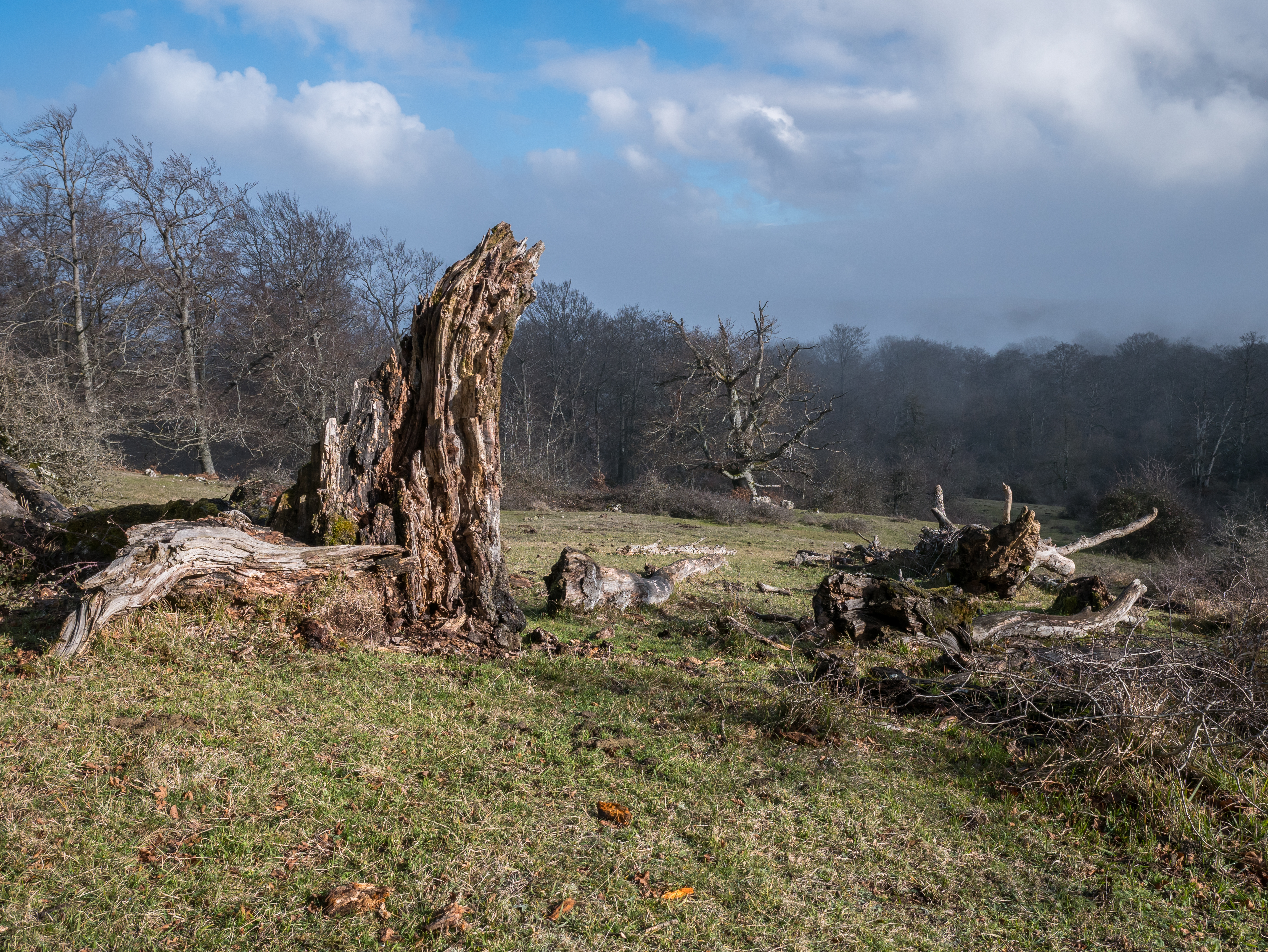 Dead trunks and beeches (Fagus sylvatica) in the Iturrieta mountain range. Álava, Basque Country, Spain